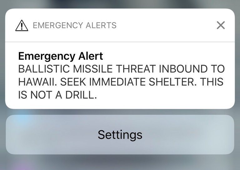 An image of the alert erroneously sent to cellphones in Hawaiʻi on 13 January 2018